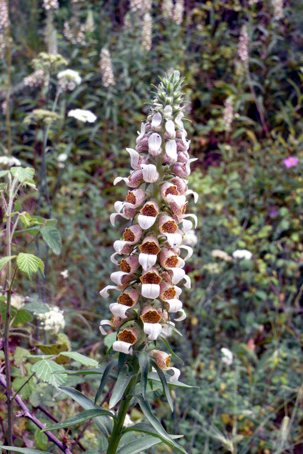 Digitalis lanata, from Thasos, Greece